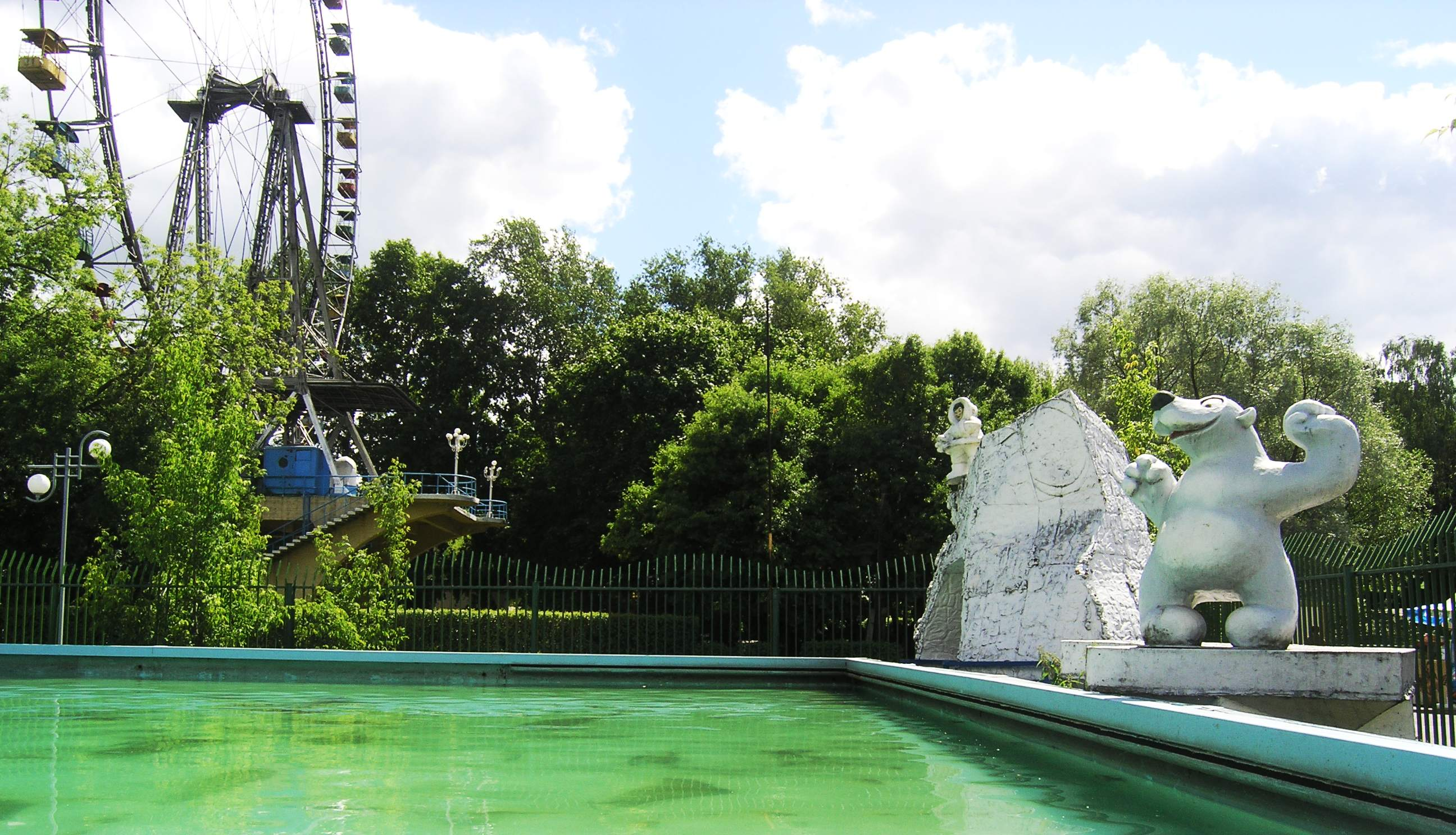 in Gorky Park